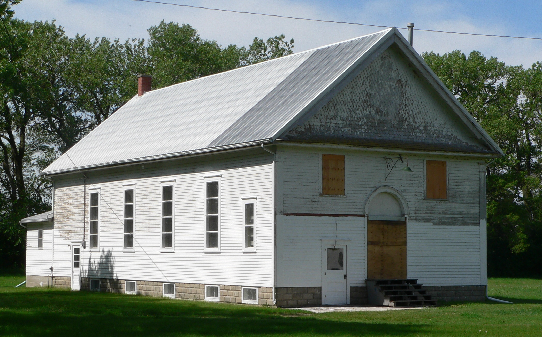 Parish hall at St. Anselm's Church in Anselmo, Nebraska; seen from the southeast. The St. Anselm's complex, which includes the church, rectory, and parish hall, is listed in the National Register of Historic Places.